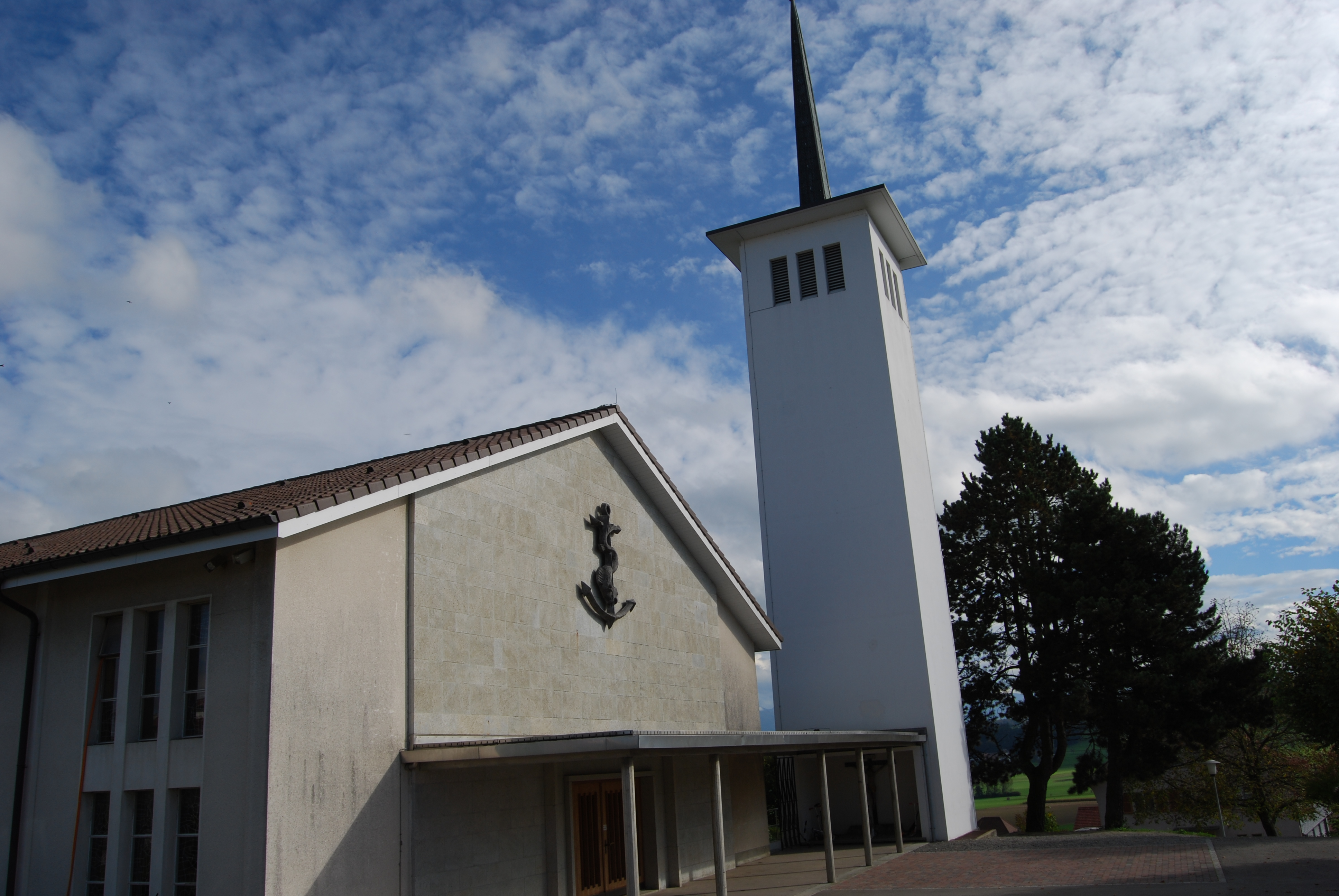 Catholic Church of Noréaz, canton of Fribourg, Switzerland